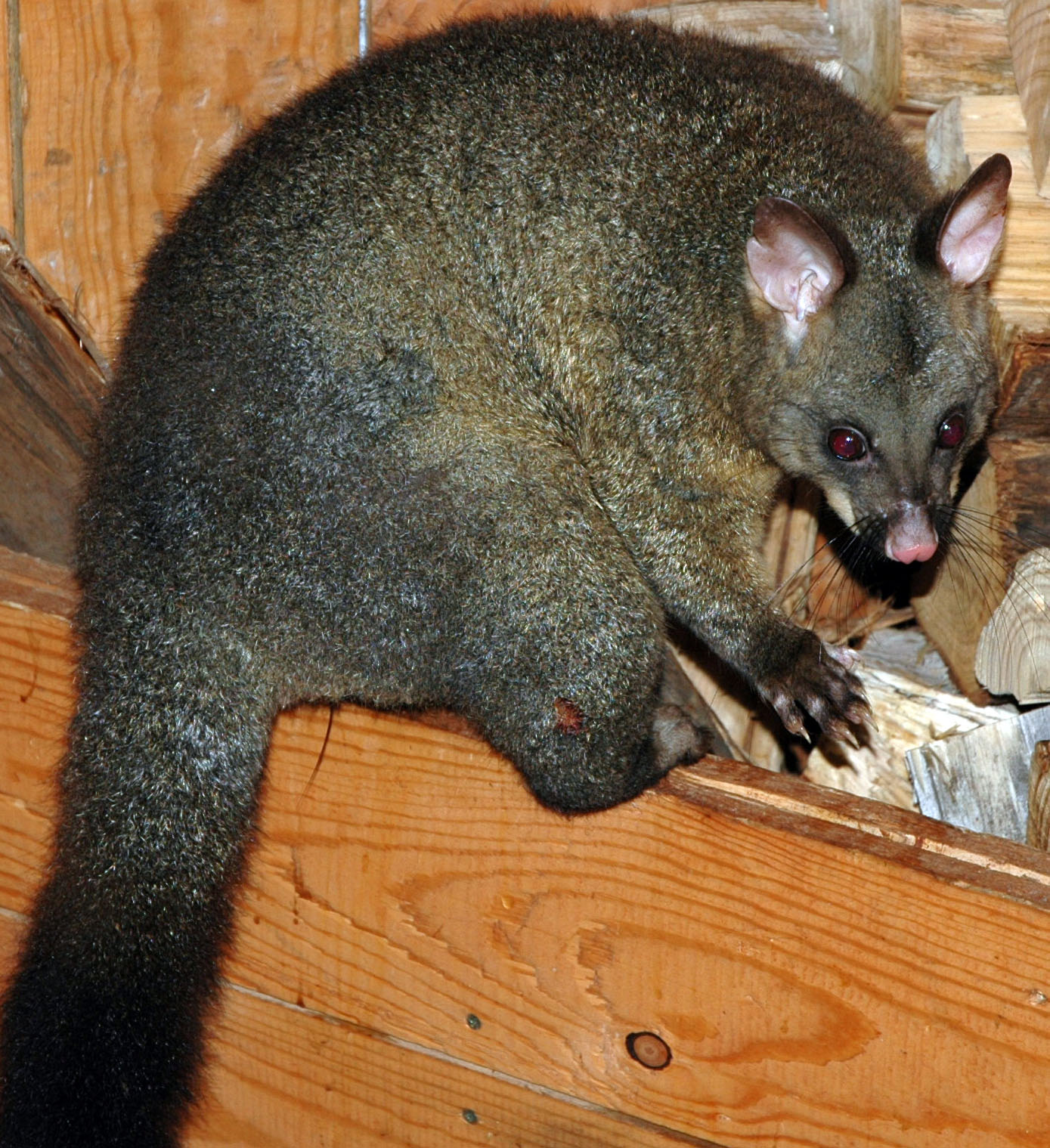 Common Brushtail Possum Trichosurus vulpecula, Cradle Mountain, Tasmania.